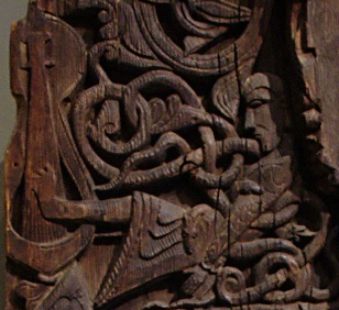 Gunnar Gjukason (norse name of the german Gunther) in the snake pit playing the harp with his feet. Detail from the left portal plank from Hylestad stave church, Setesdal, Norway. Original photo by Jeblad. 12th century. (According to Gunnars wife Gudrun threw a harp to him. Still bound in chain, Gunnar played the instrument with his toes so well, that music caused all but one snake to fall to sleep. This last adder killed him. (According to Other sources describes the instrument as a lute. (For example